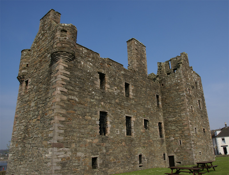 MacLellan's Castle, Dumfries and Galloway, Scotland - from south west